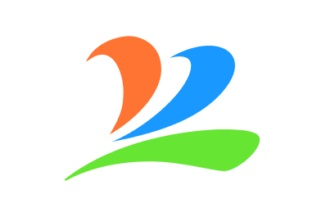 Flag of Uenohara Yamanashi